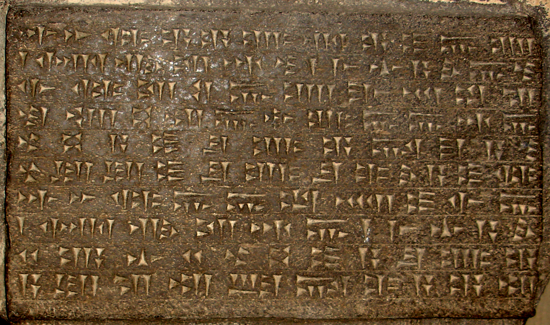 Erebuni museum, Yerevan, Armenia. Text under the tablet translate the writing as follow : "By the greatness of Gold Chaldis, Argistis, son of Menuas, built this mighty stronghold and proclaimed it Erebooni for the glory of the country of Biainili and for holding the enemy's countries in awe, by the greatness of God Chaldis, Argistis, son of Menuas, mighty king, king of the country or Biainili, ruler of the town of Tushpah."